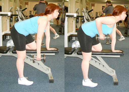 Thanks go to the model, Emily.